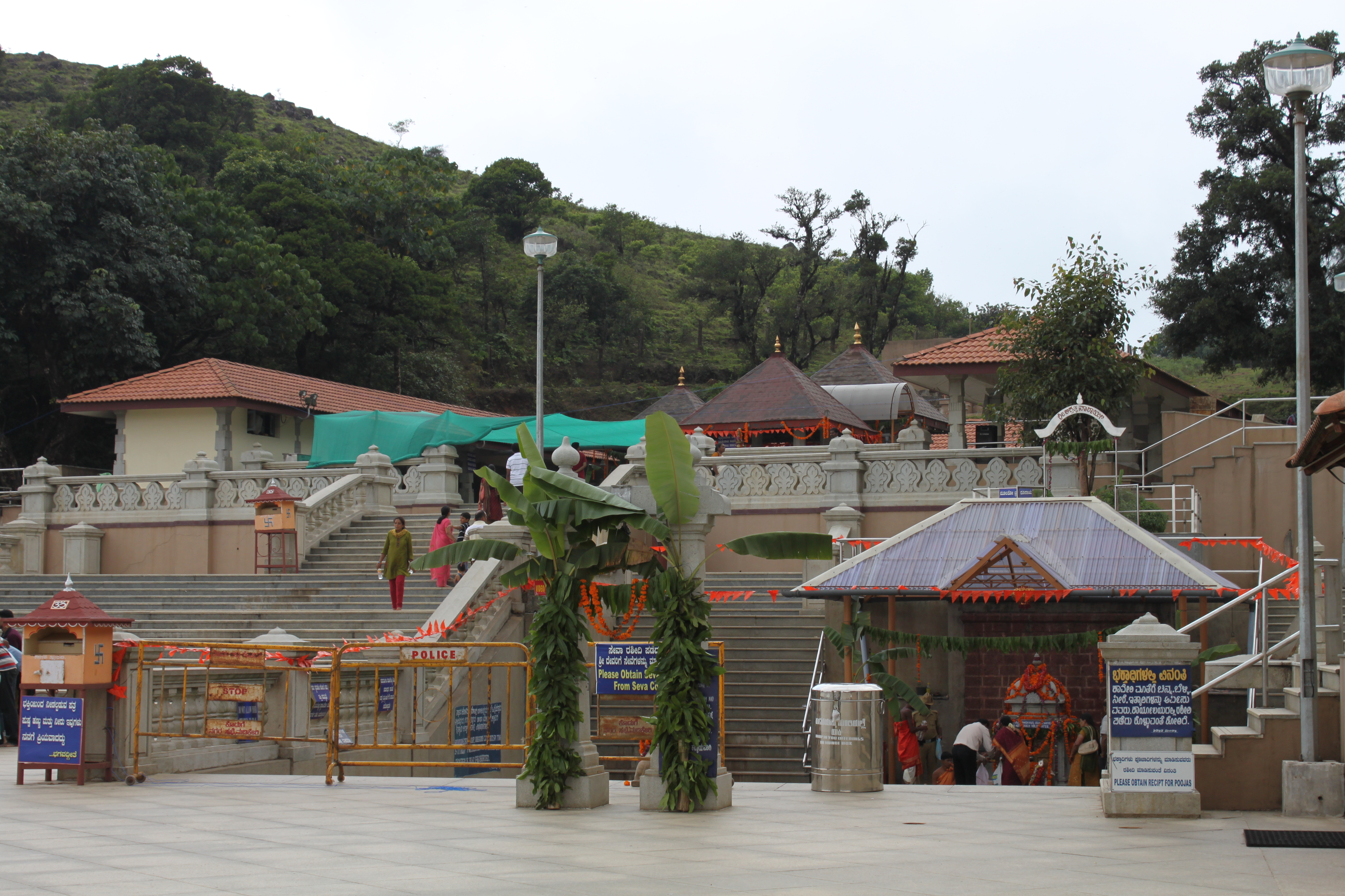 Talacauvery Temple as of May 2011, after renovation by State Government completed in 2010.